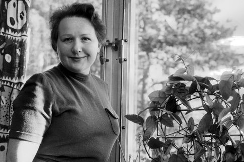 The Swedish actress Sif Ruud.